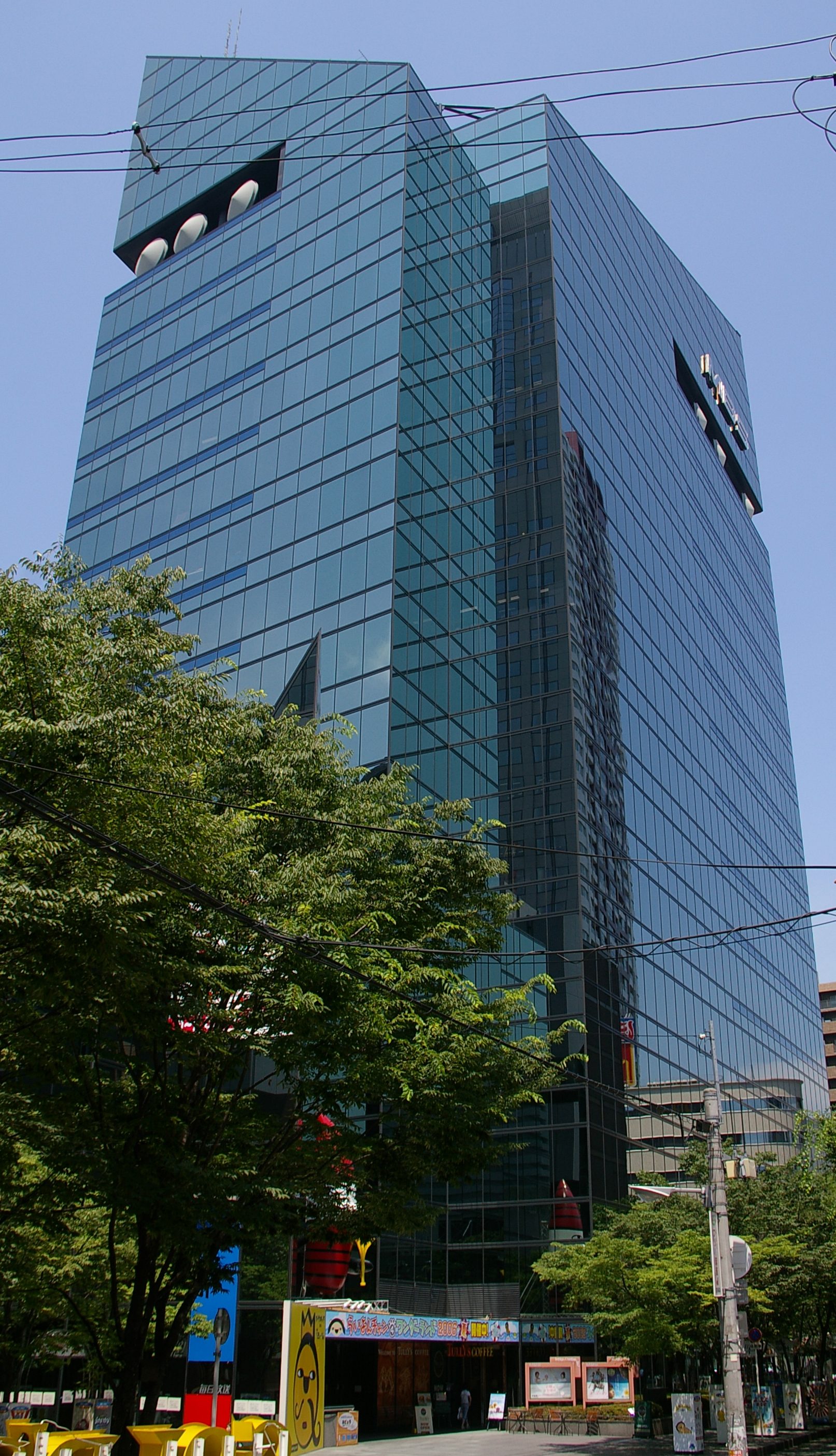 Photograph of head office of Mainichi Broadcasting System in Kita-ku, Osaka, Osaka Prefecture, Japan.